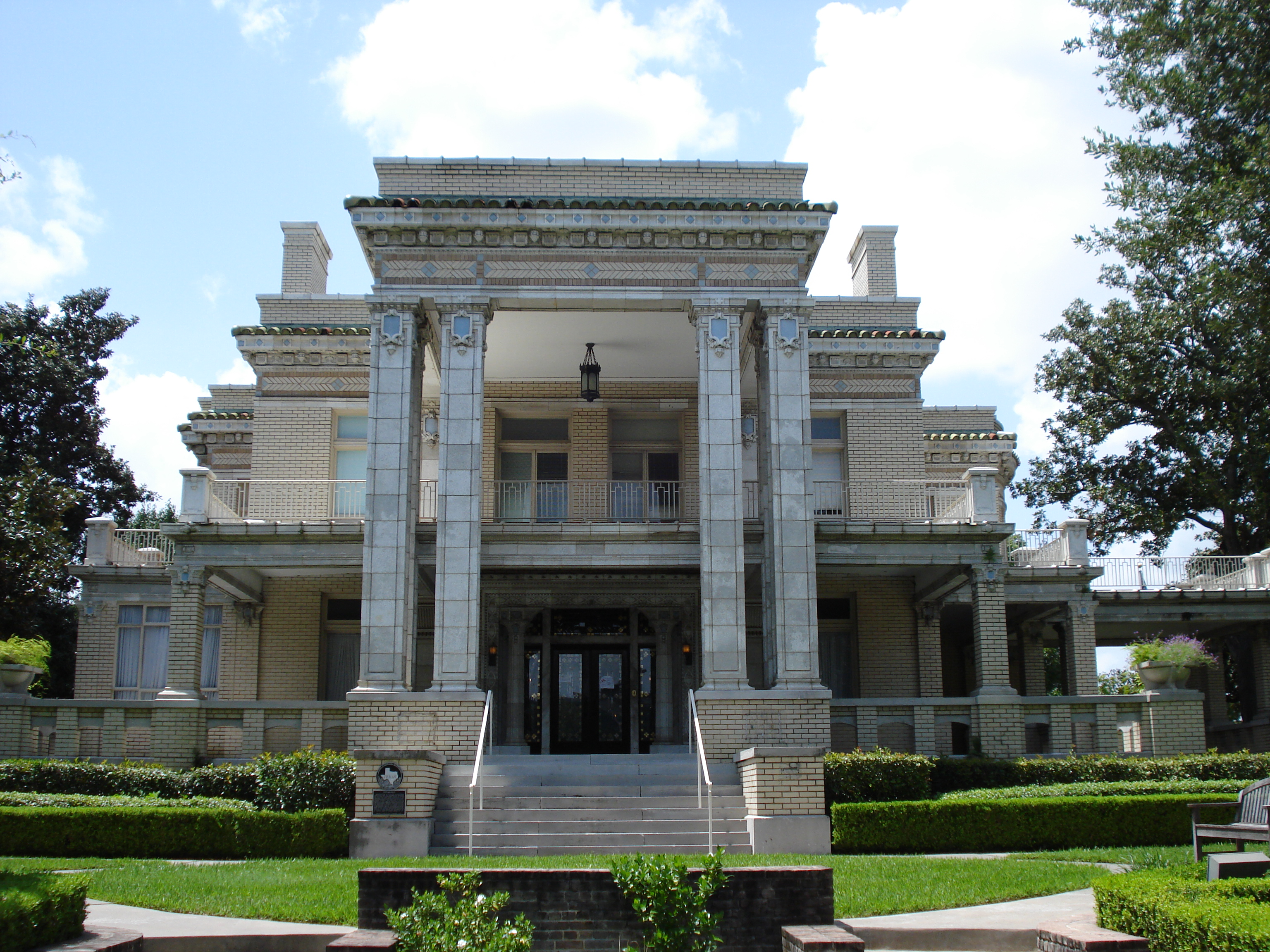 Link-Lee House - Photo by Argos'Dad